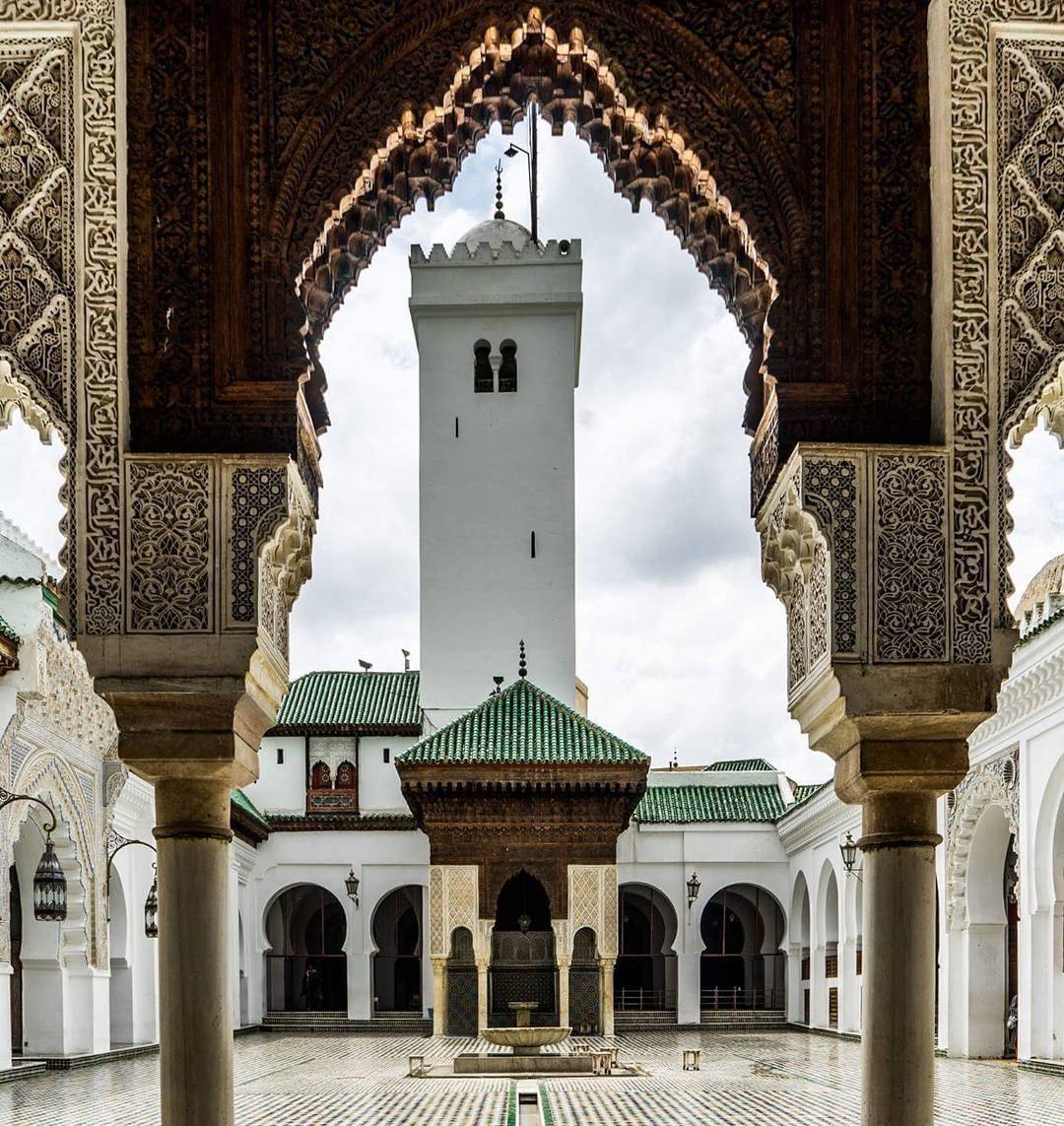 The oldest university of the world, Al Qarawiyine university in Fès.